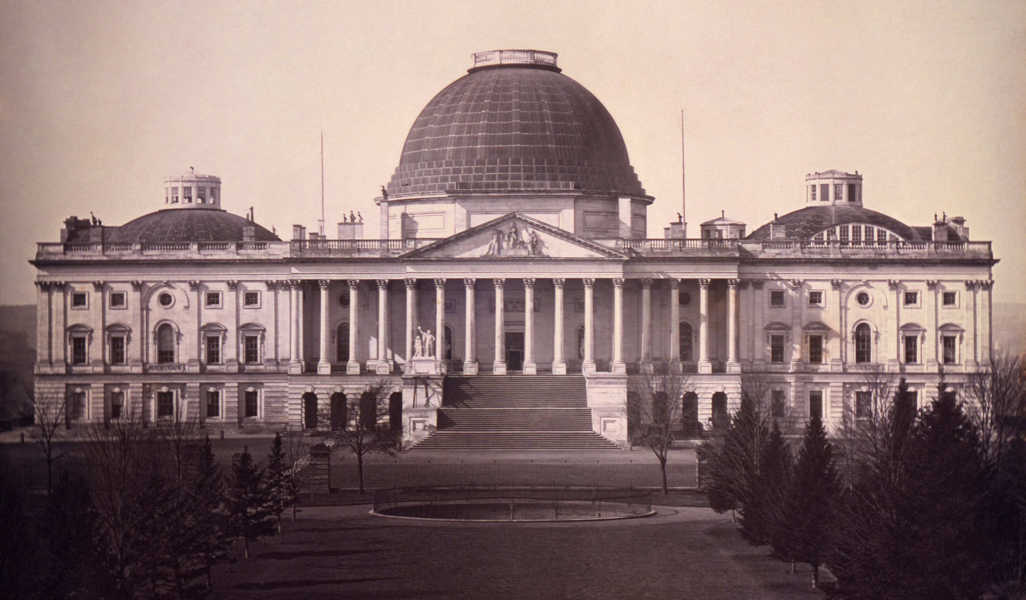 United States Capitol, Washington, D.C., east front elevation (image restoration of digital file from color film copy transparency, post-1992, of a half plate daguerreotype)